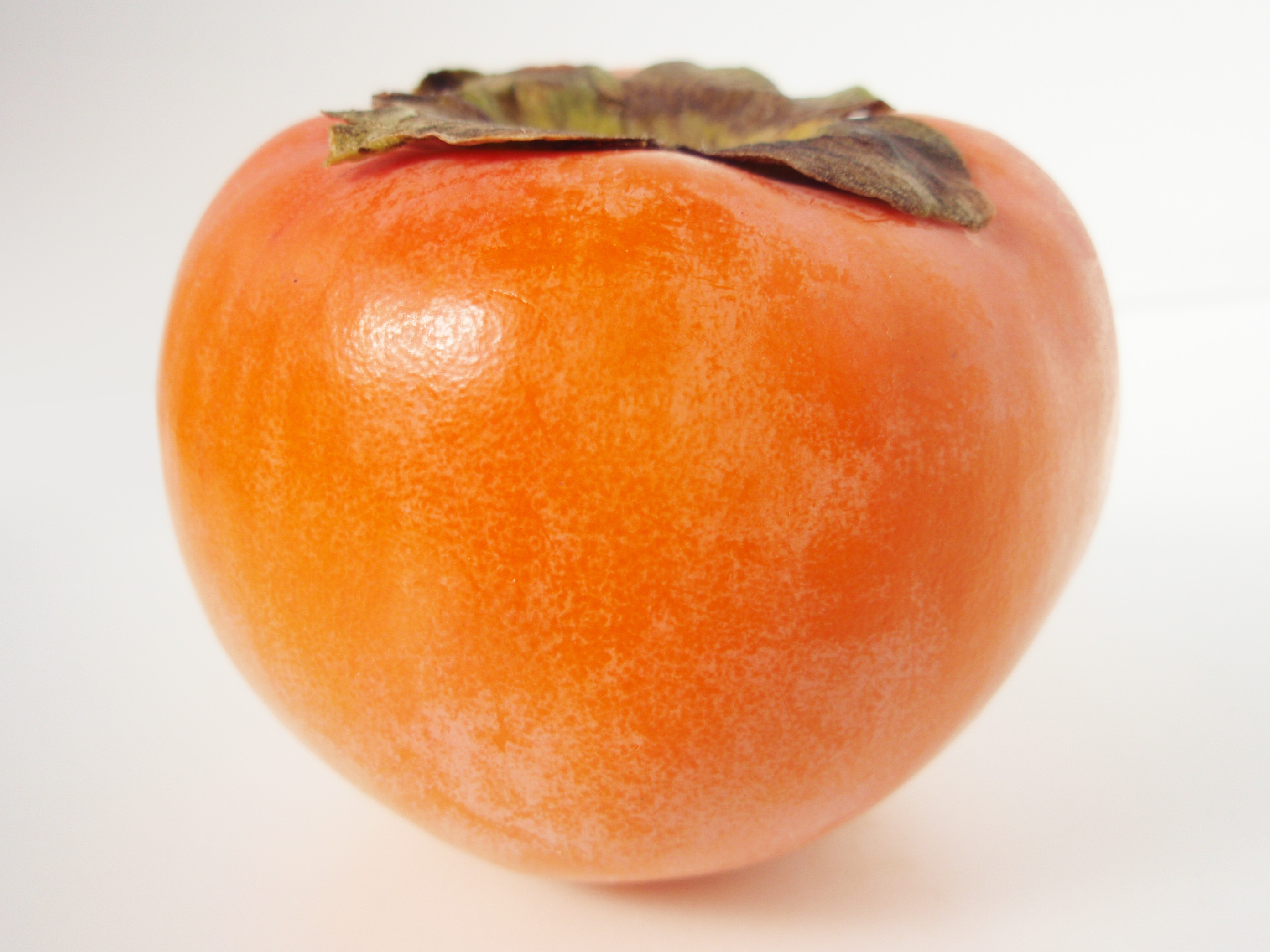 Diospyros kaki 'Fuyu'